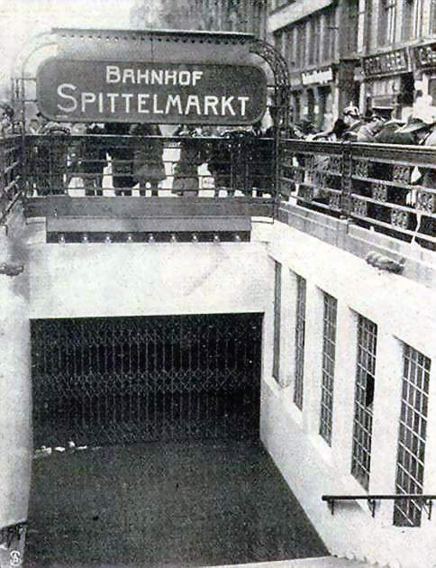 The flooded entrance of the Berlin U-Bahn station Spittelmarkt